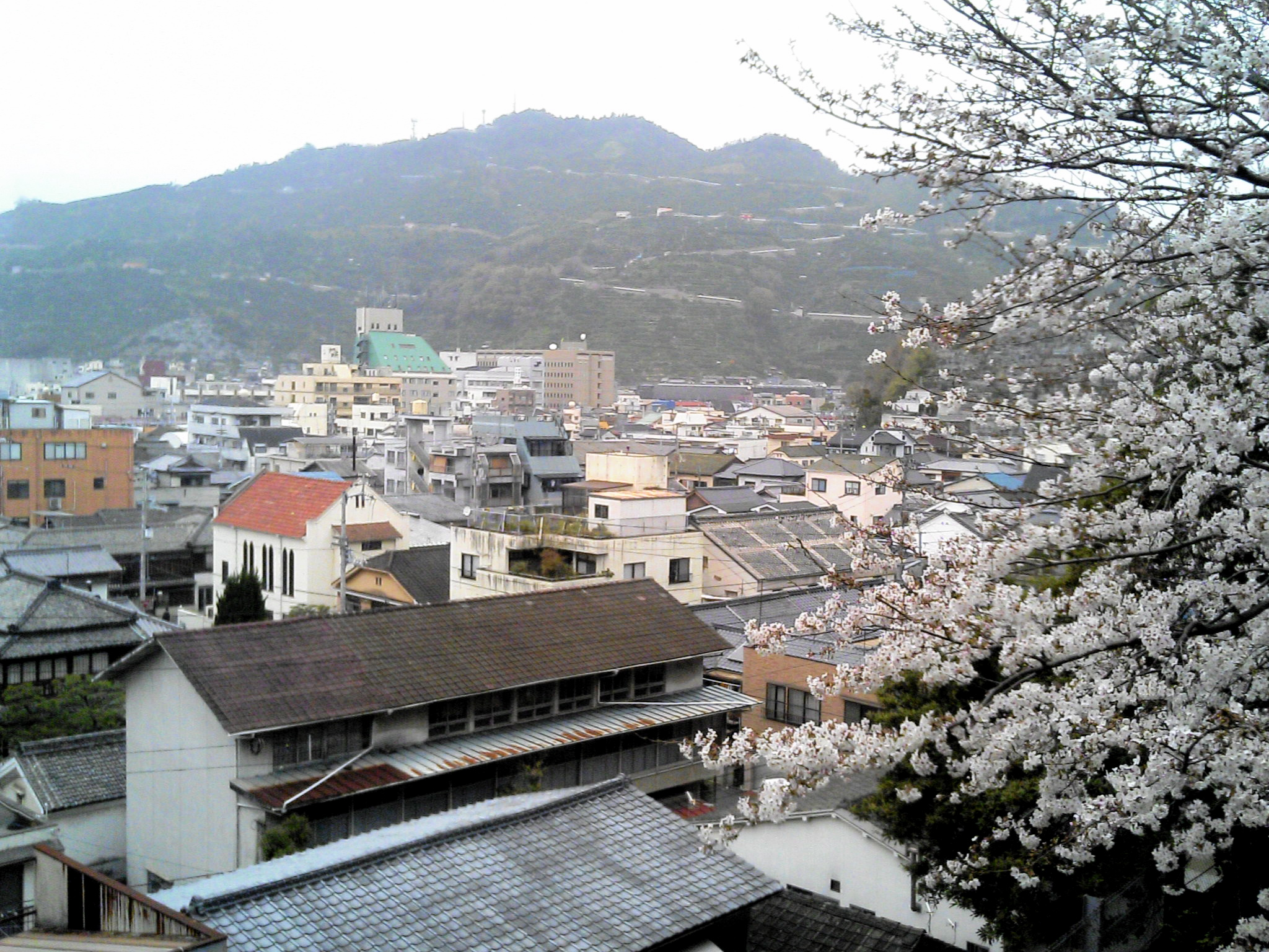 A view of the city from atop the Hachiman Shrine (八幡神社 Hachiman jinja) in Yawatahama, Ehime, Japan